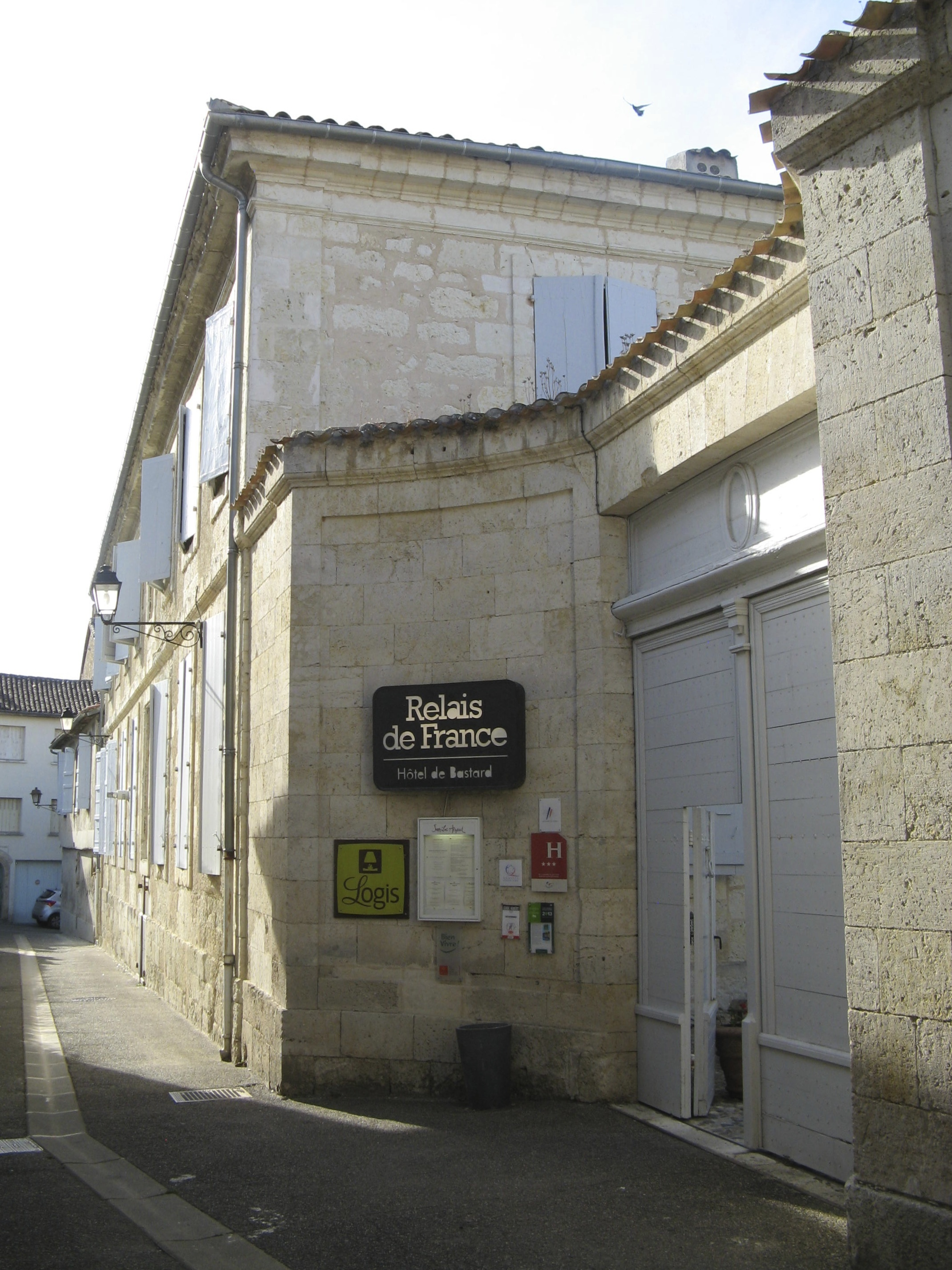 Front entrance to Hôtel de Bastard-Castaing, Lectoure - A 3 star hotel.